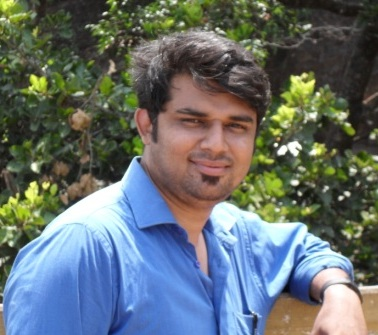 Kannada theatre Actor Avinash Kamath